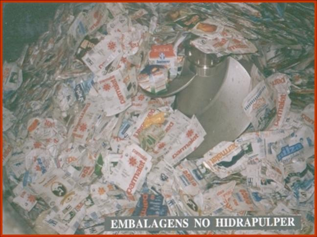 Hidrapulper with post-consumption beverage carton packages